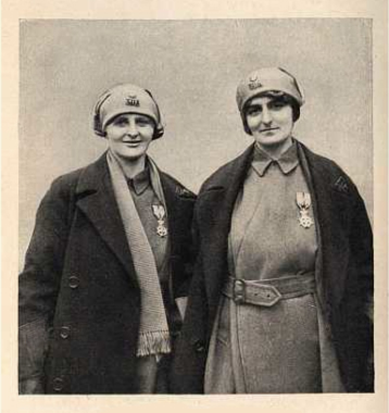 Elsie Knocker and Mairi Chisholm display their Order of Leopold II medals.